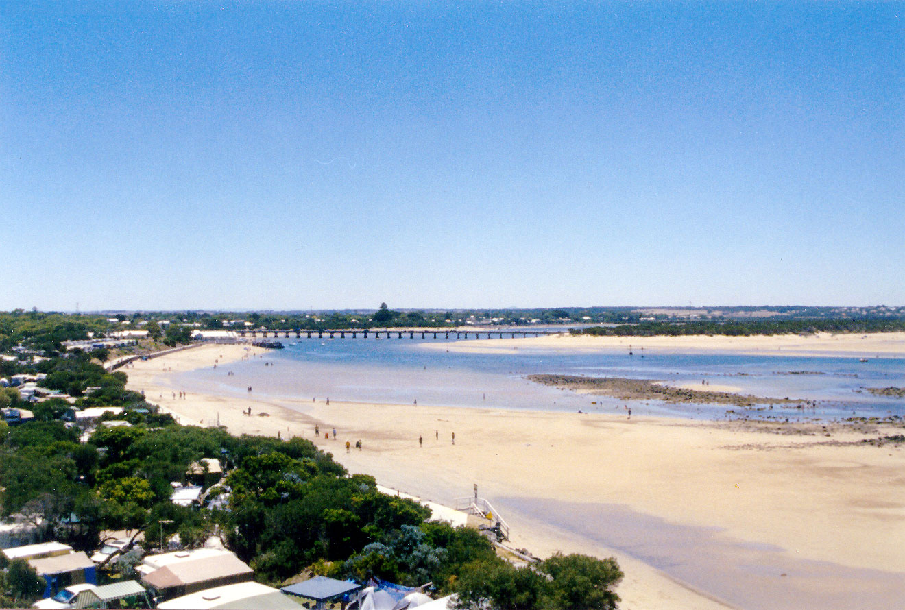 Barwon Heads, Victoria, view from the southern head looking north, showing the town and the estuary of the Barwon River.